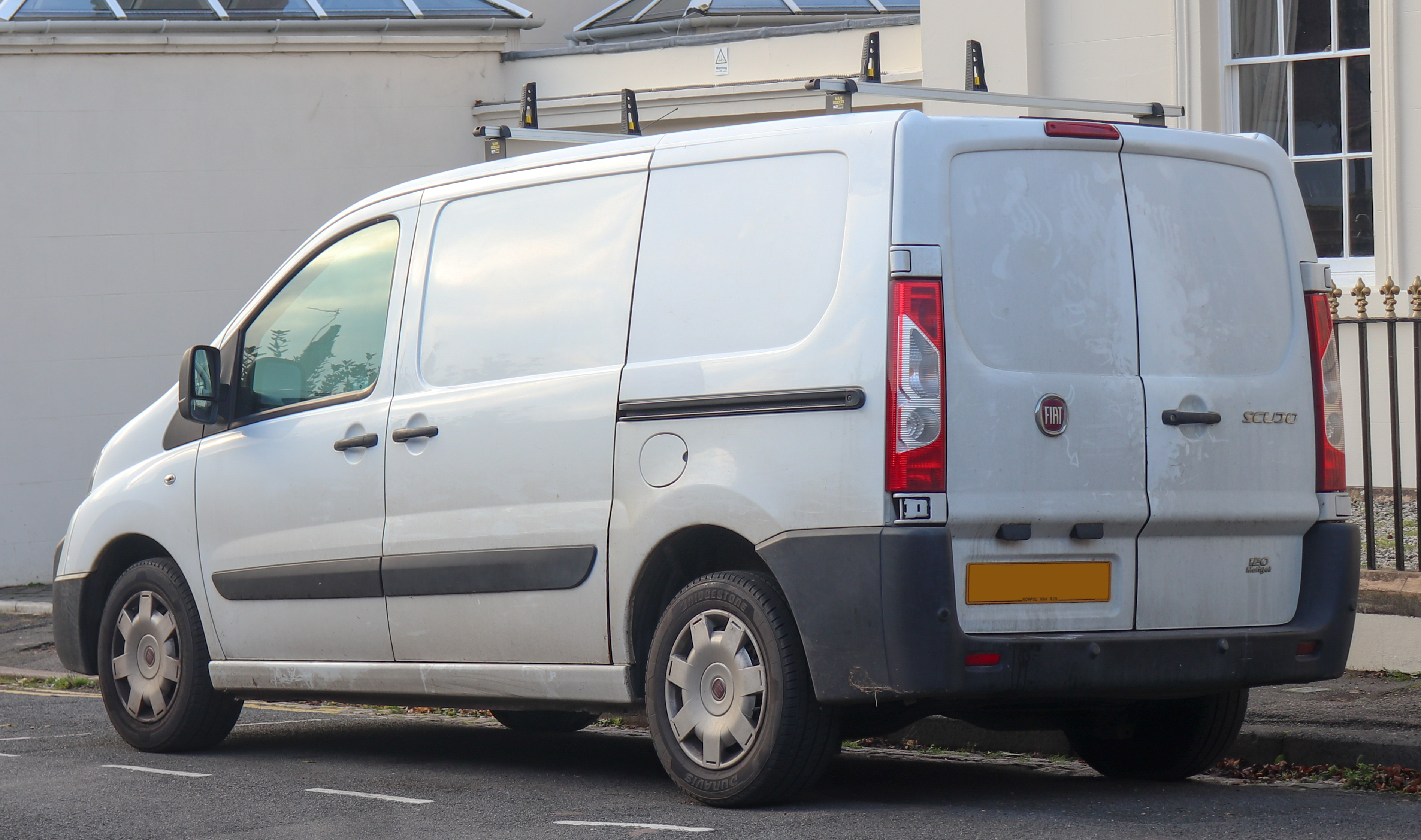 2009 Fiat Scudo Comfort 120 Multijet SWB 2.0 Rear Taken in Leamington Spa